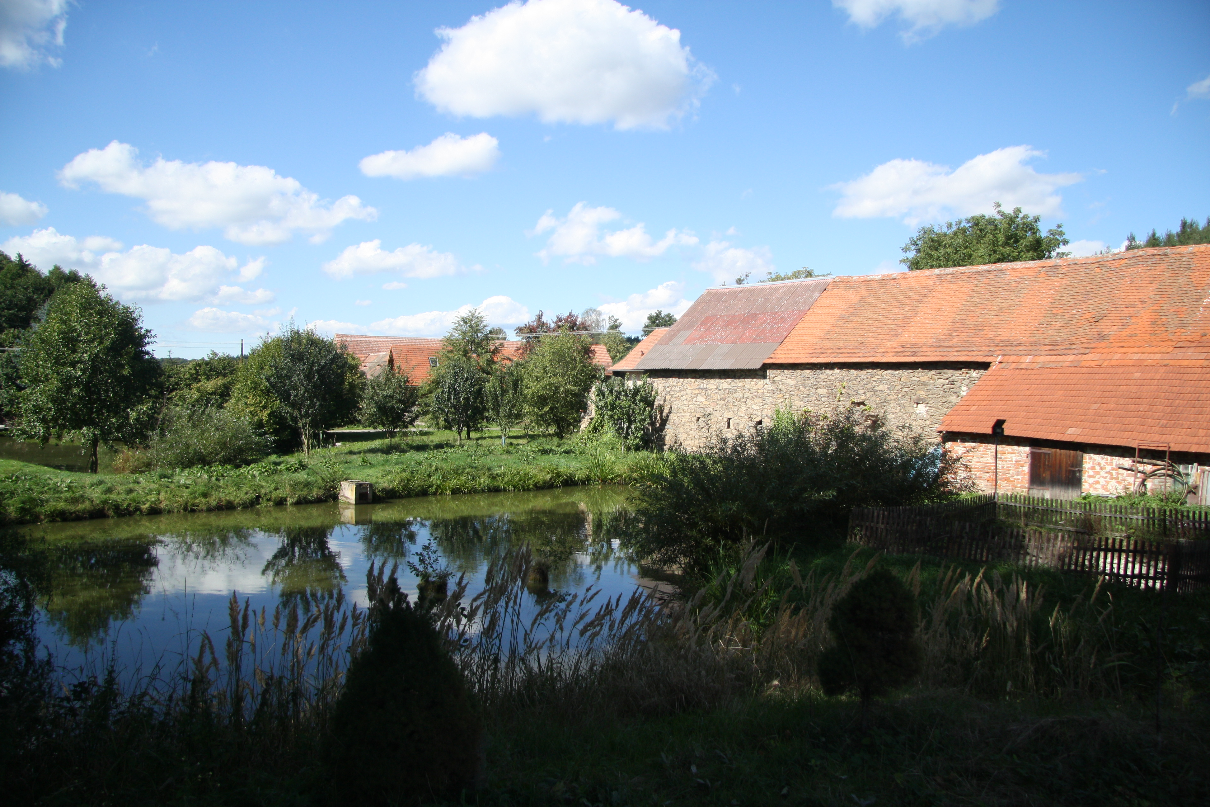 Center of Brdečný and pond, Křečovice, Benešov District.